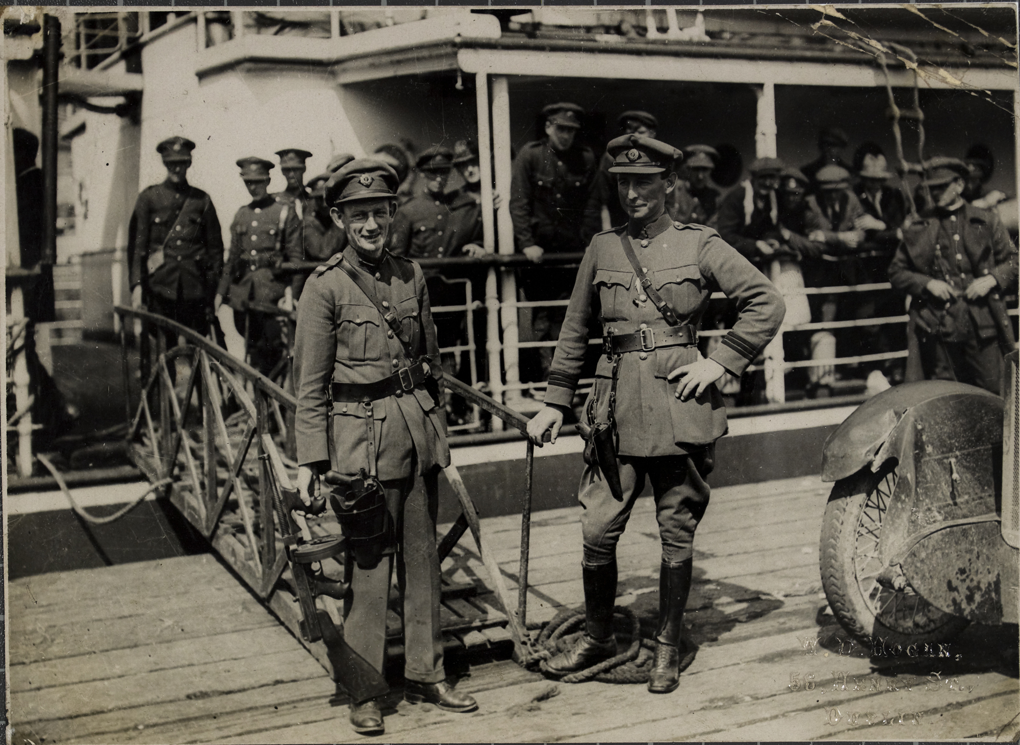 Today and tomorrow we've got two related Hogan photos from the civil war's "Battle for Cork" (July-August 1922). The first was labelled in the catalogue as "Major General Ennis (with Thompson gun) and Comdt. McCreagh disembarking from the Lady Wicklow at Passage West", and shows two senior military men who seem somewhat relaxed given what's coming in the days ahead. While we have met General Tom Ennis before and also visited Passage West before, perhaps there's more to find out about a man who looks like he was possibly a "hands-on" officer... STOP PRESS - This is not the Lady Wicklow at Passage West, it seems that it is the London & North Western Railway Company's Dublin/Holyhead ferry S.S. Arvonia at Albert / Victoria Quay, Cork City. This news comes from the intrepid [/photos/91549360@N03/ O Mac] who guarantees the accuracy of this new information. Owen also suggests that the man on the right is most likely Patrick McCrea rather than McCreagh as per our title. We now need to review some of the Hogan Civil war photos and decide on the accuracy of the original descriptions. Photographer: W. D. Hogan Collection: Hogan-Wilson Collection Date: 1922 NLI Ref: HOGW 96 You can also view this image, and many thousands of others, on the NLI’s catalogue at